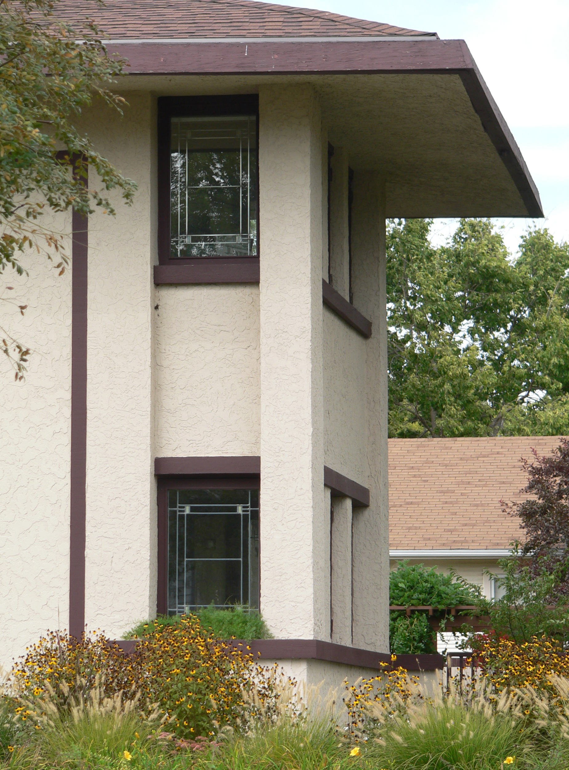 Harvey P. Sutton House in McCook, Nebraska: east end of house, seen from south-southeast. A closer photo of the lower single window is at File:Harvey Sutton House S side E end window 1st floor.JPG; a close-up of the upper single window is at File:Harvey Sutton House S side E end window 2nd floor.JPG.